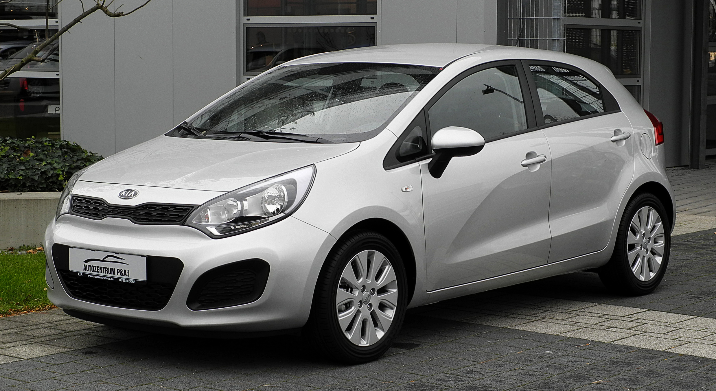 Kia Rio 1.4 CVVT Edition 7 (UB)